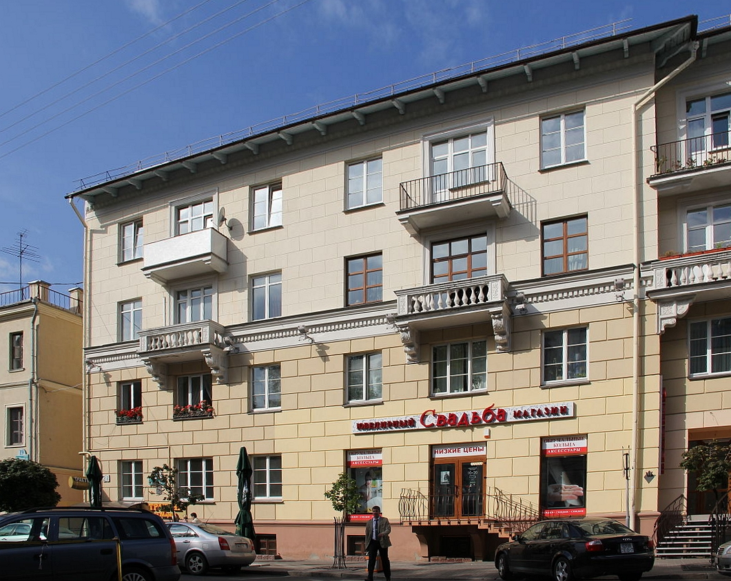 Беларуская (тарашкевіца): Будынак. г. Менск This is a photo of Belarusian heritage monument. Reference number: 713Г000124 ( WLM)